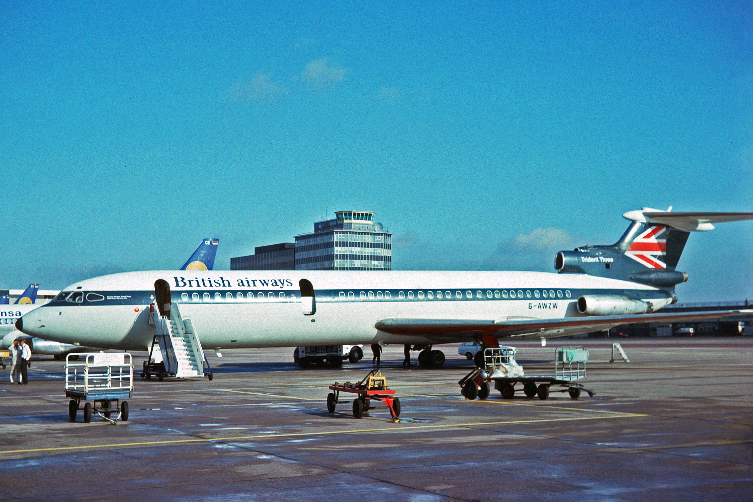 G-AWZW Hawker Siddeley HS121 Trident 3B British Airways MAN 24OCT75